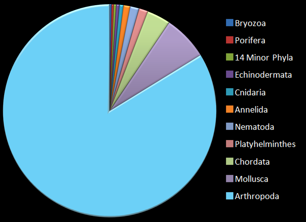 A pie chart showing the contribution of each animal phylum to the total number of animal species.[1][2]